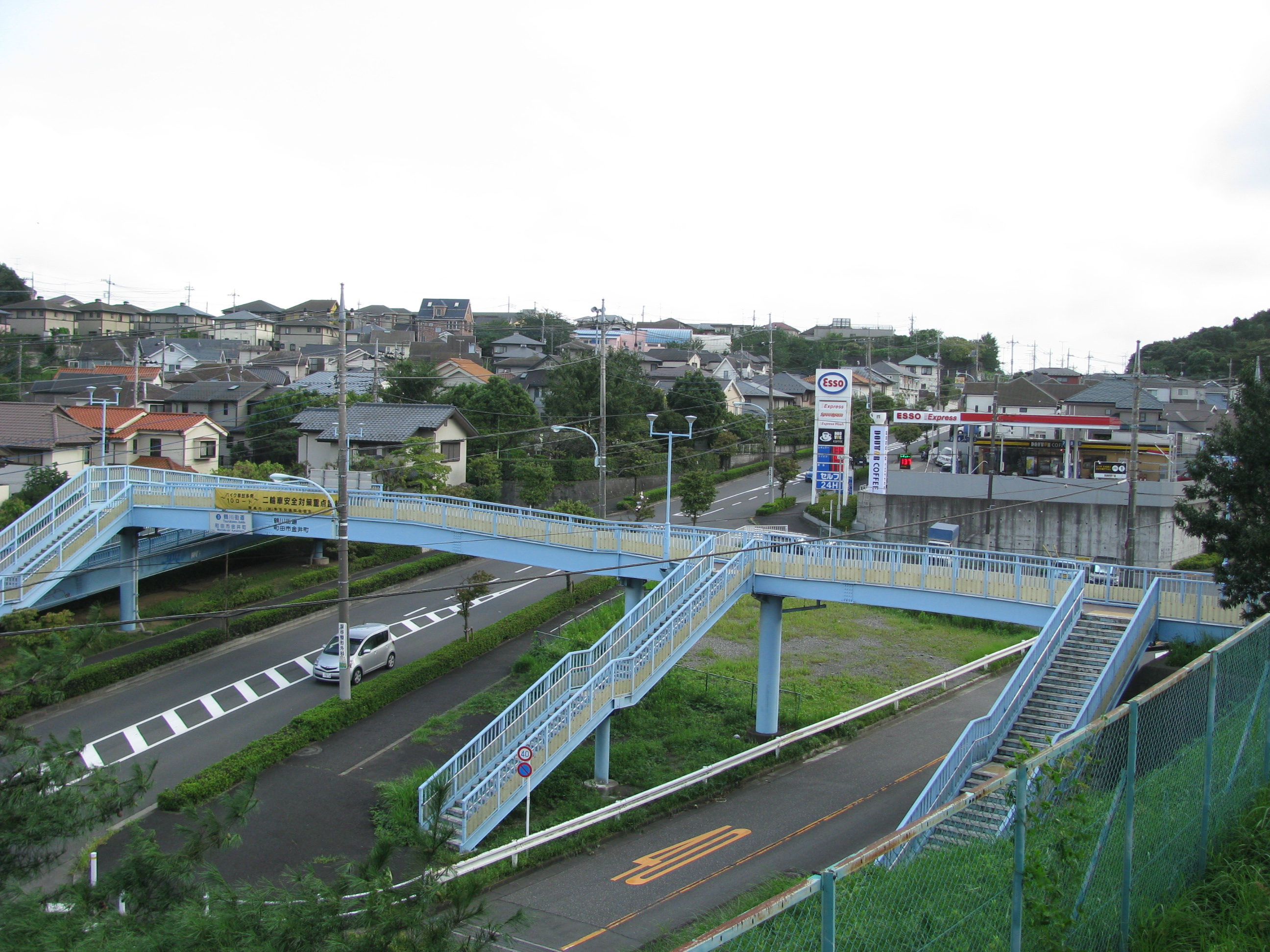 The Tokyo Prefectural Route 3. This location is Kanaimachi in Machida, Tokyo, Japan.